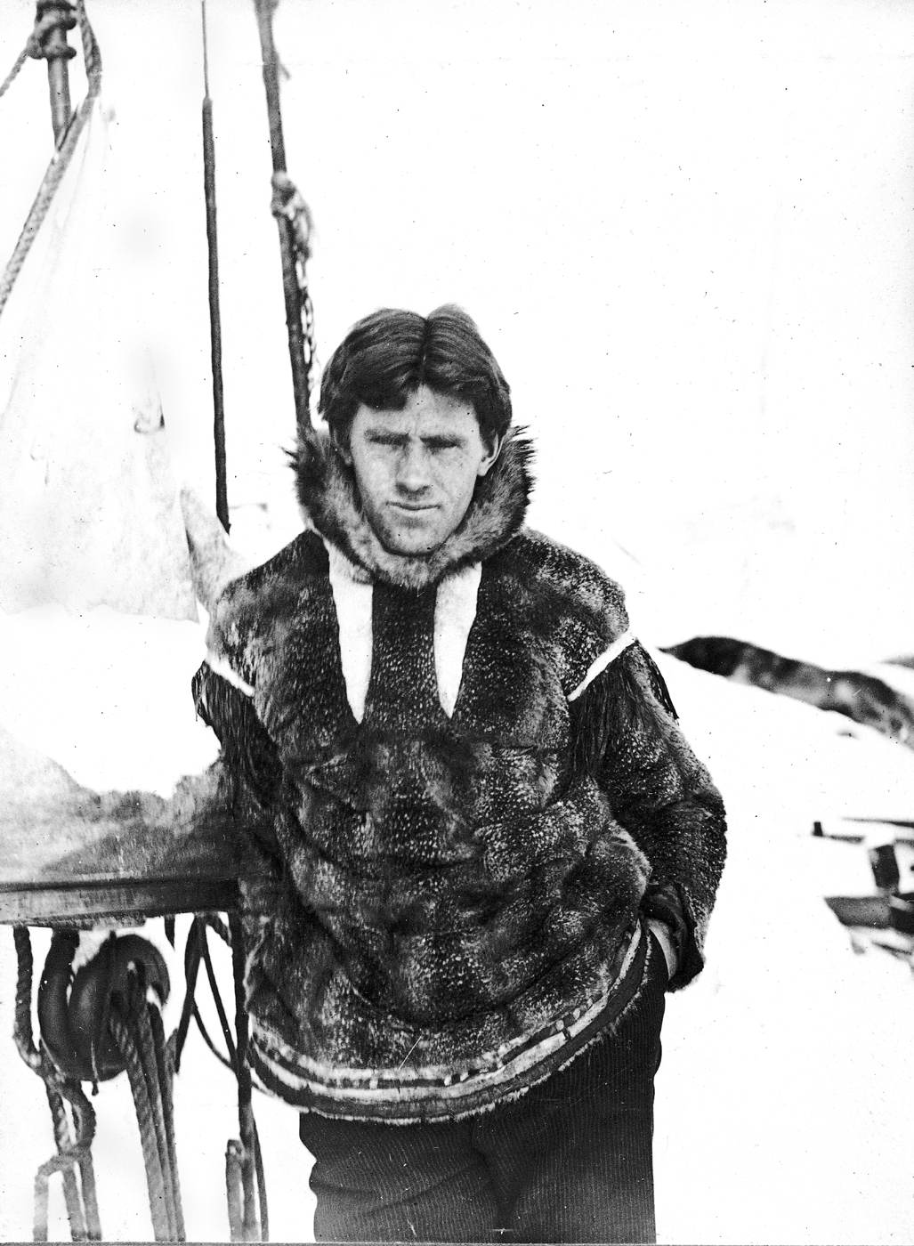 Captain Ejnar Mikkelsen, Flaxman Island. Anglo-American Polar Expedition. Canning district, Northern Alaska region, Alaska. 1907.